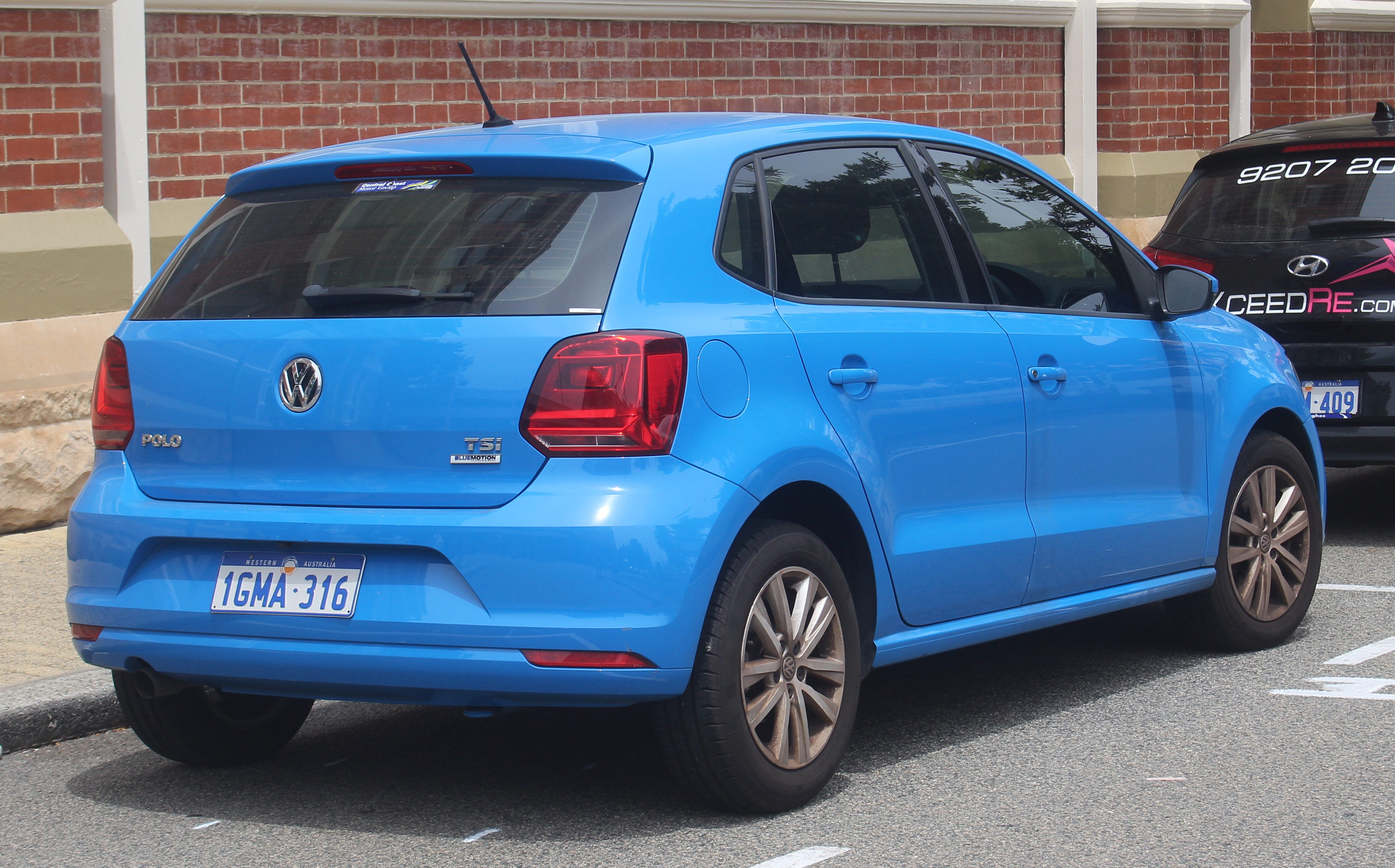 2014-2017 Volkswagen Polo (6R) 81TSI Comfortline hatchback. Photographed in Fremantle, Western Australia, Australia.